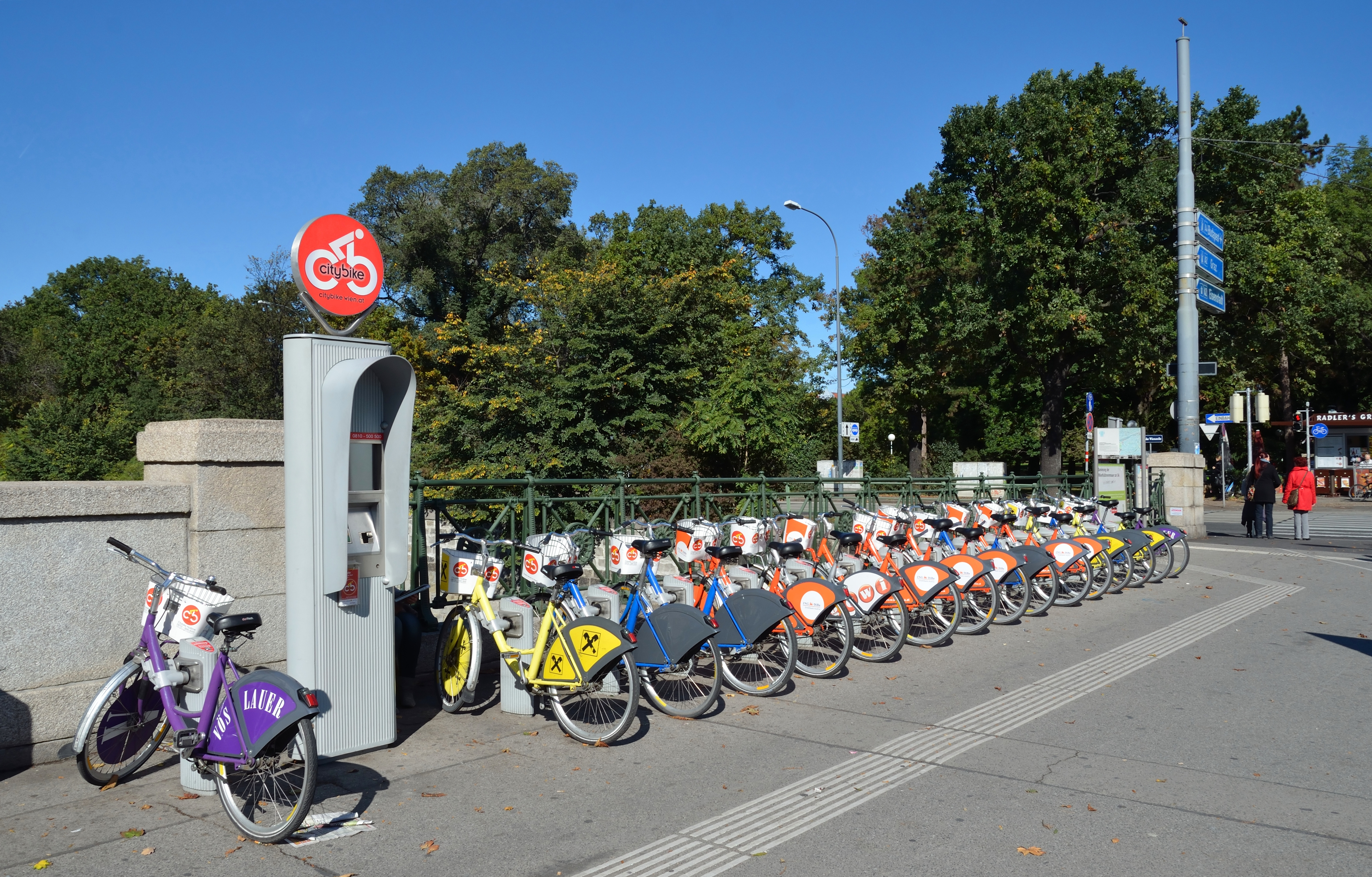 Bicycle rack for Citybike Vienna at the Schönbrunner Brücke, Hietzing.